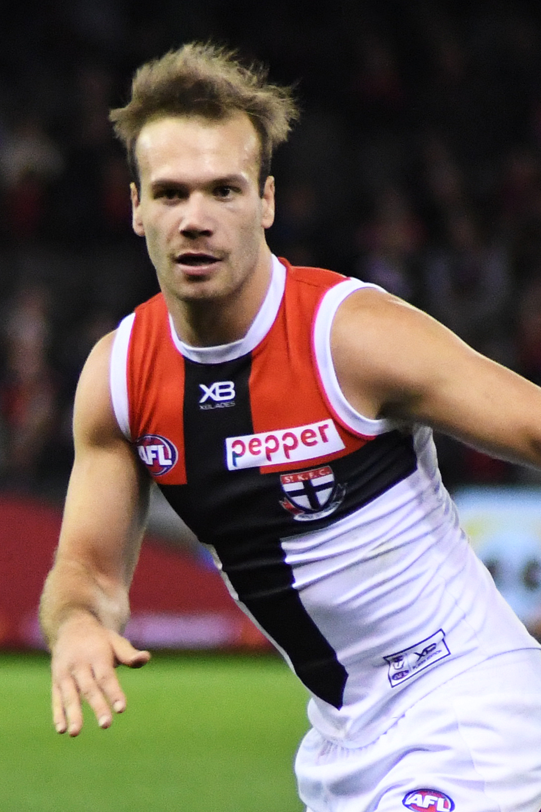 Bailey Rice of St Kilda during the 2018 AFL round 21 match between Essendon and St Kilda at Etihad Stadium on Friday, 10 August 2018 in Melbourne, Victoria.